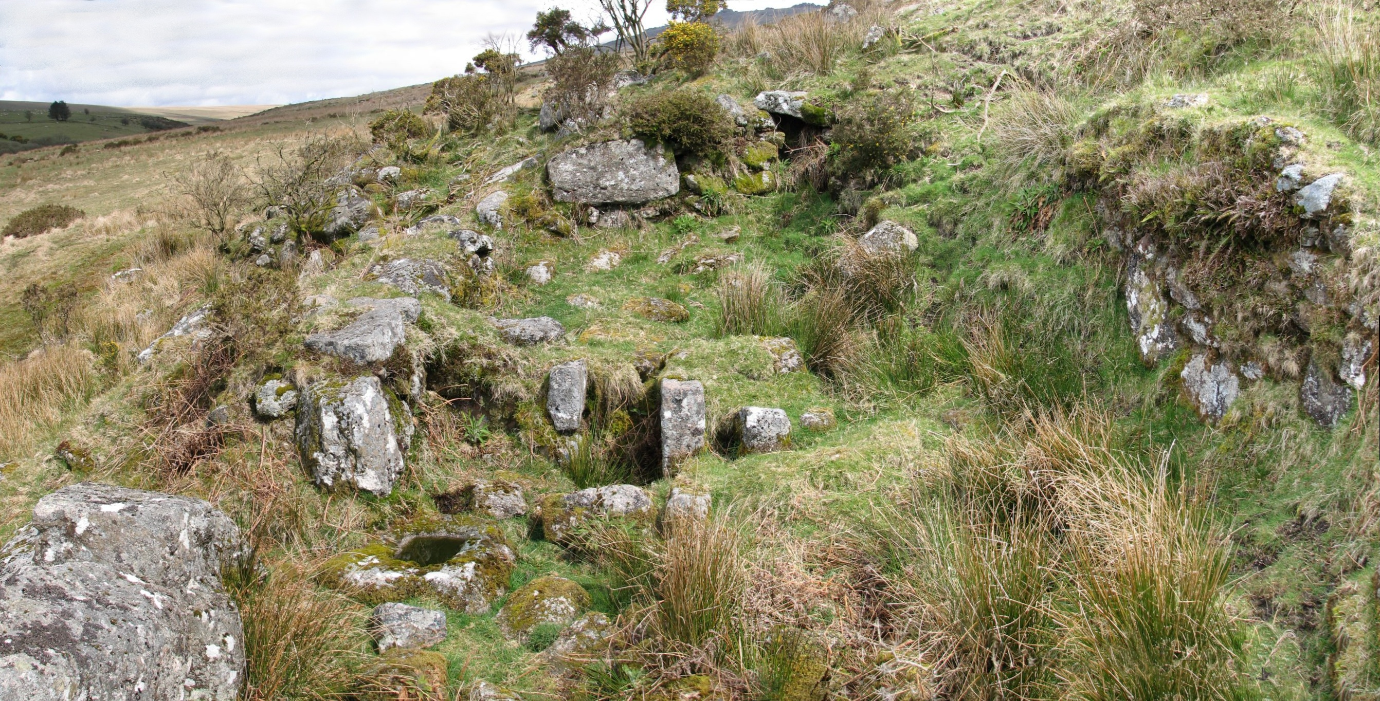 A general view, looking north, of the interior of the lower blowing house on the River Walkham, Dartmoor, England.